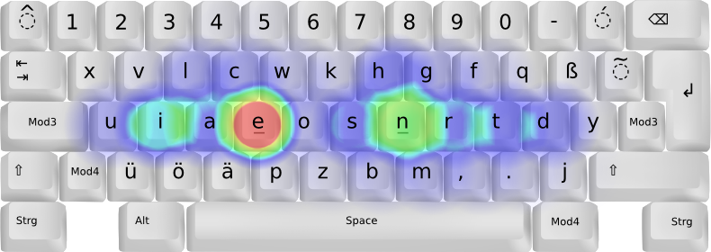 This heatmap shows the common distribuition of typing frequency for the German text »Effi Briest« by Theodor Fontane (nearly 500.000 characters without spaces) on a NEO layout. Text was taken from the Gutenberg project [1], the heatmap was created with heatmap.js by Patrick Wied [2]